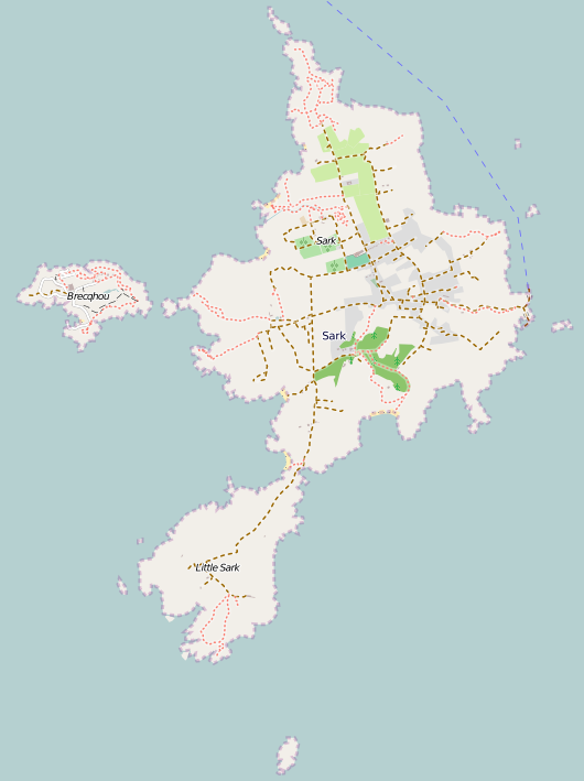 Location map of Sark, Guernsey This map of Sark was created from OpenStreetMap project data, collected by the community. This map may be incomplete, and may contain errors. Don't rely solely on it for navigation.